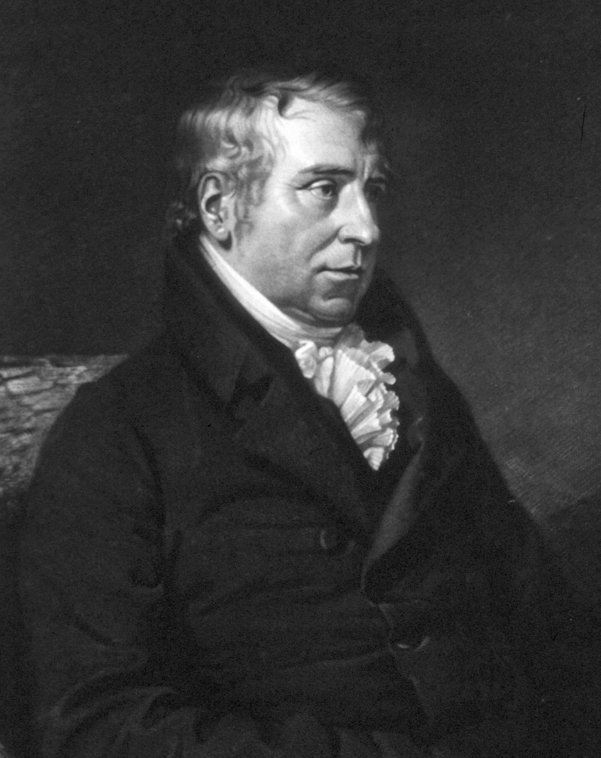 Portrait of John Haslam (1764–1844), English apothecary, physician and medical writer